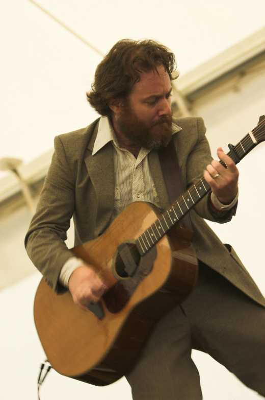 Australian musician Jeff Lang at Harvest Festival on 21 January 2007.